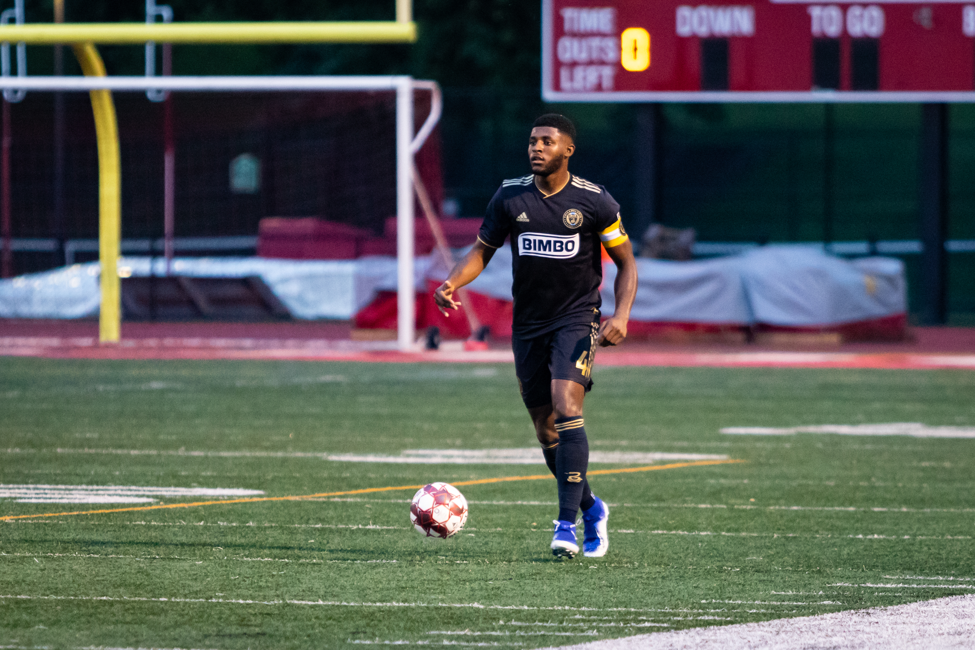 Mark McKenzie playing for Philadelphia Union.